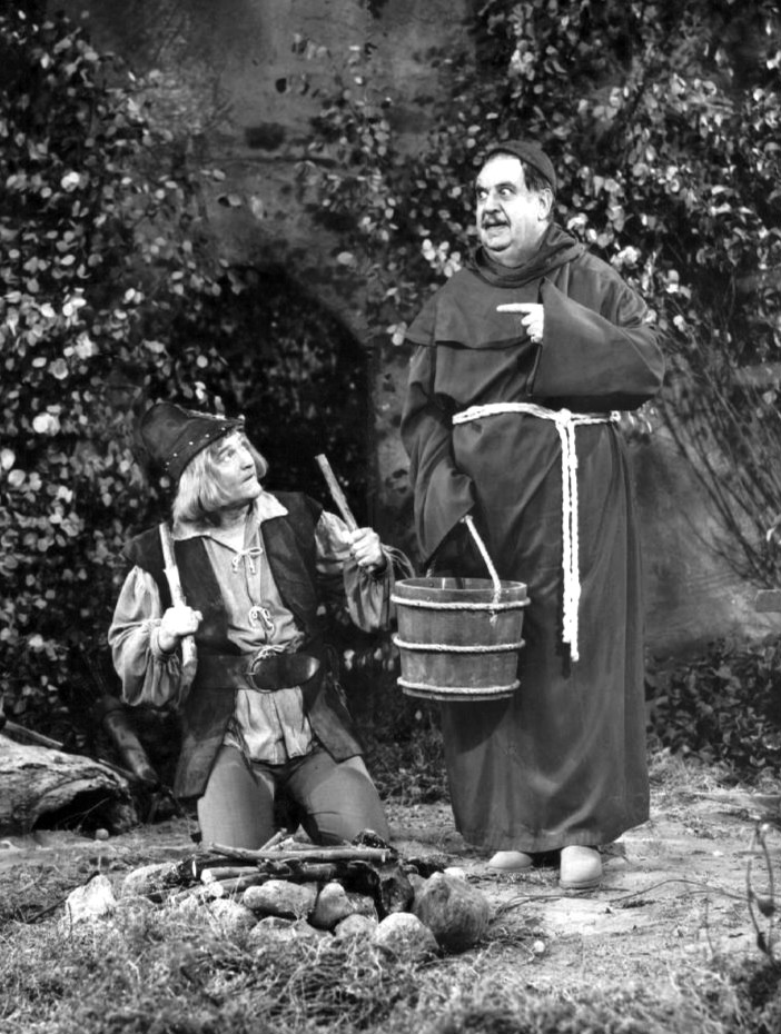 Red Skelton as Robin Hood and Billy Gilbert as Friar Tuck in a skit from the television program The Red Skelton Show.